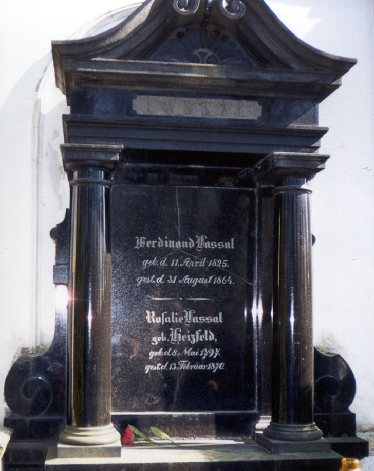 tombstone of Ferdinand Lassalle at Wroclaw